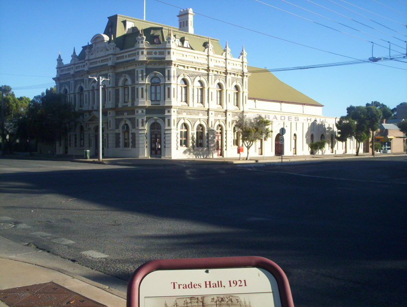 Broken Hill, New South Wales, Trades Hall, I took the photo